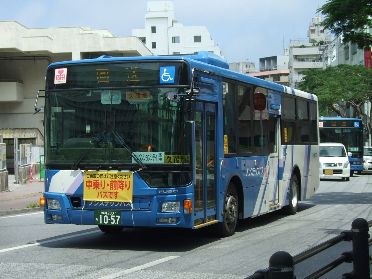 Company:Okinawa Bus Use:transit bus Car license:ONO 230 A 1057 Chassis manufacturer:Mitsubishi Fuso Truck and Bus Type:Aero Star Coachbuilder:Mitsubishi FUSO Bus Manufacturing Location:at Naha Bus Terminal, Naha City, Okinawa, Japan.